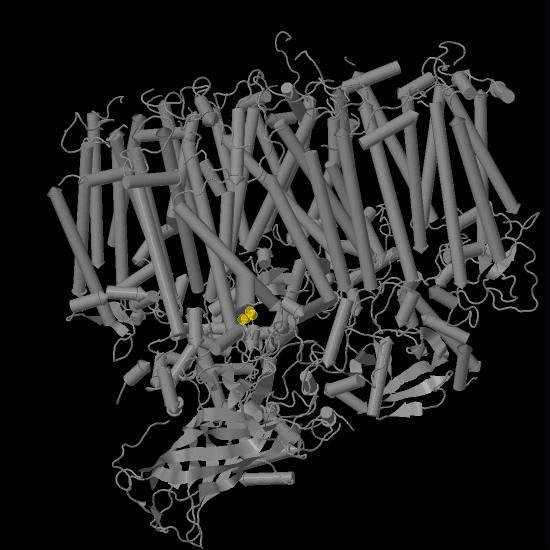 PDB 3KZI, structure of monomeric form of cyanobacterial Photosystem II, using Jmol. The ligands were removed. Highlighted in yellow, the position of the 4 Mn of the oxygen evolving complex.